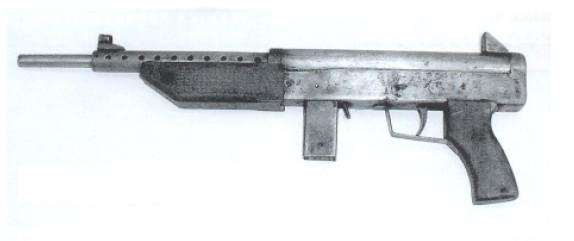 ChropiGP10